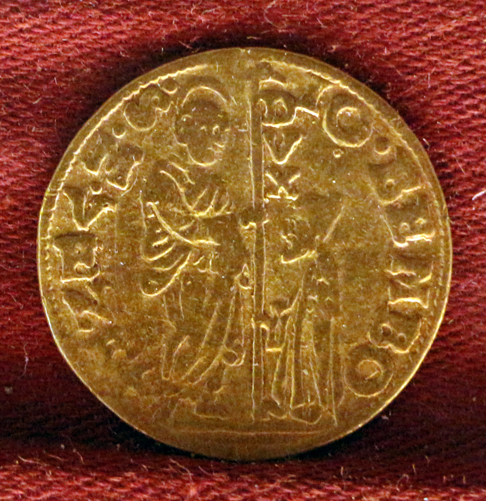 Coins of Venice in the Museo Correr (Venice)